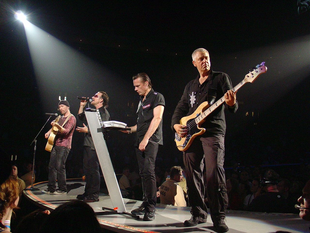 Source: Zachary Gillman [1]